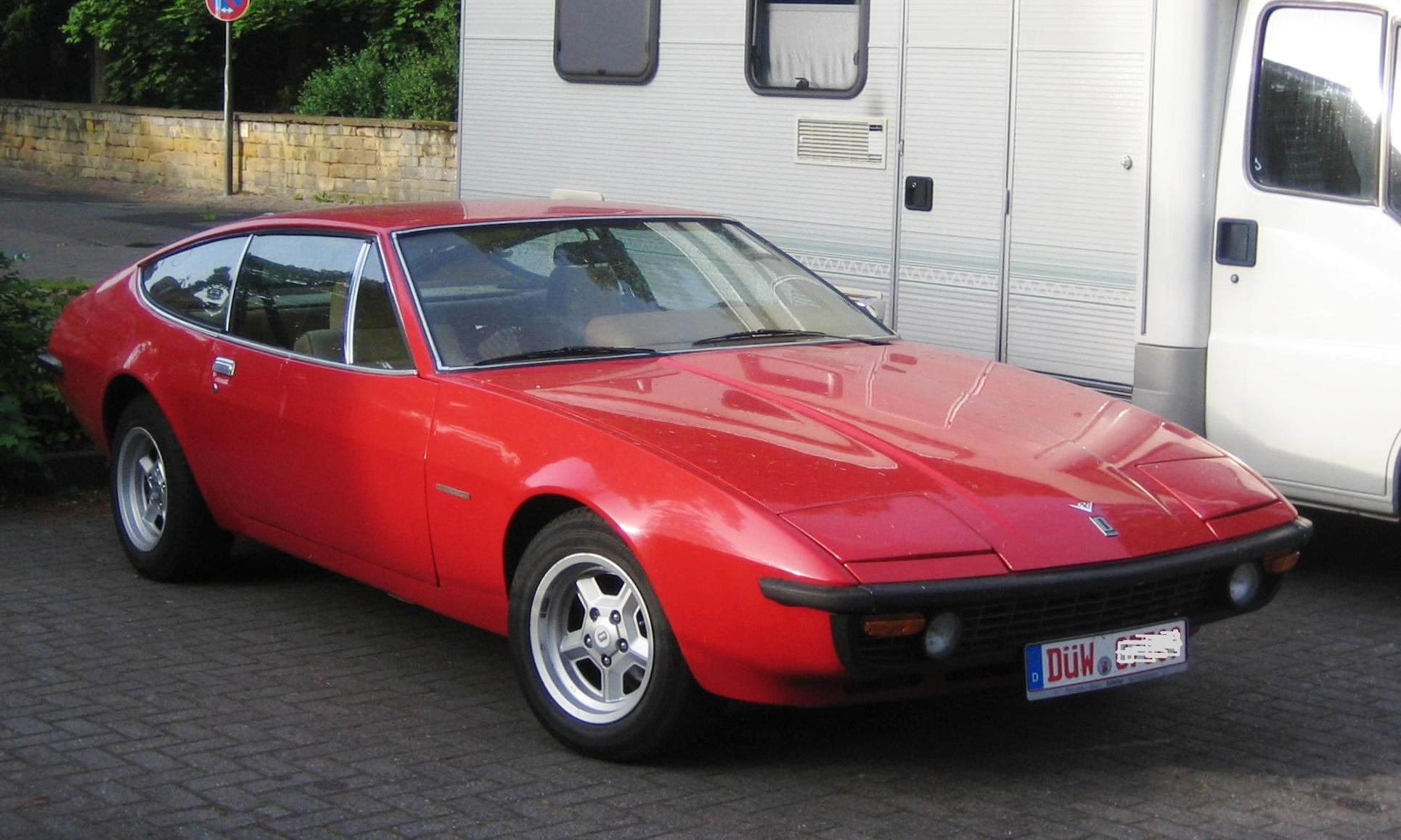 Bitter Diplomat 5.4 V8 based on the Opel Diplomat of the day, in Deidesheim opposite the Buhl'schen Park